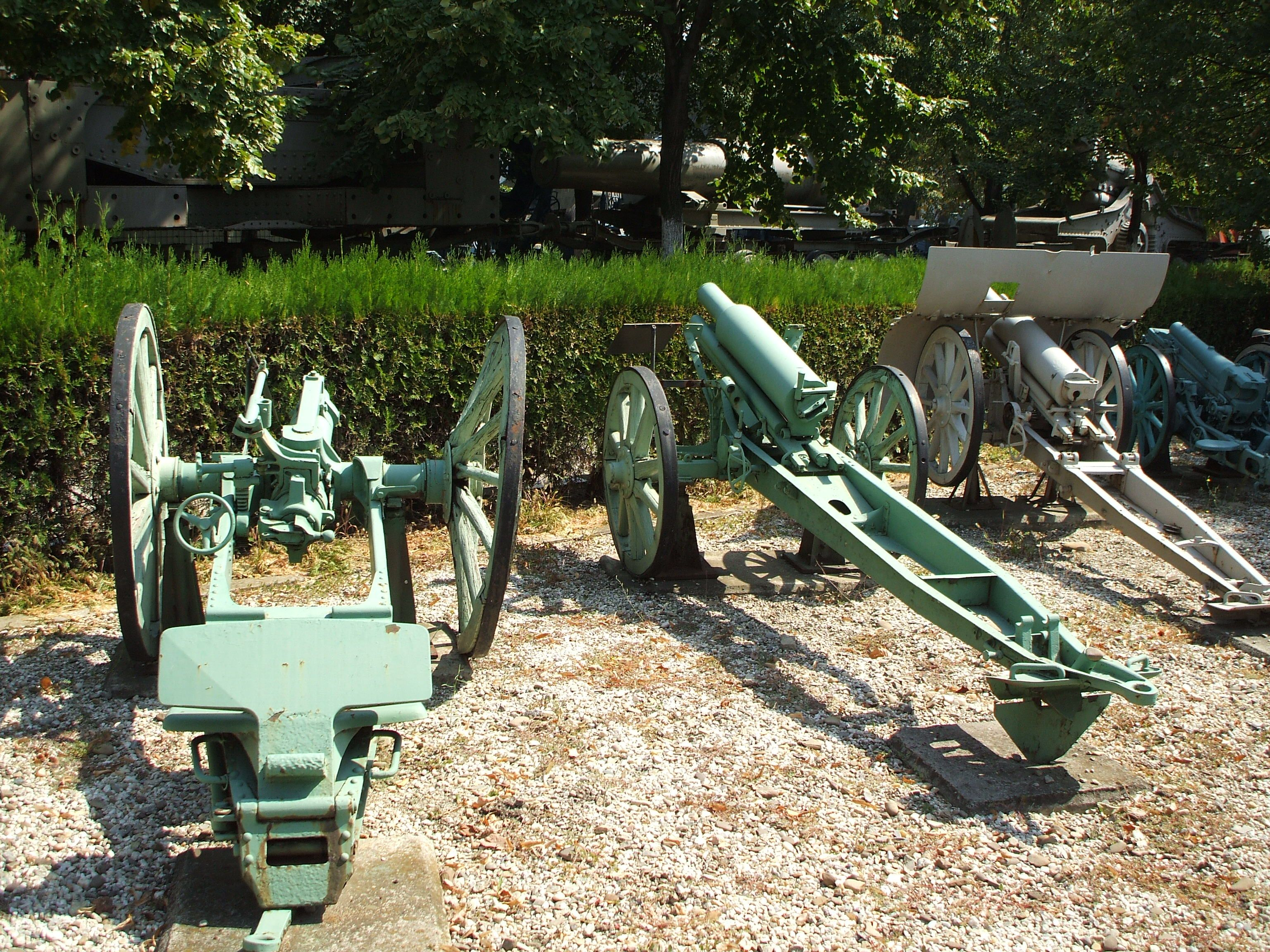 Romanian pre-WW1 3-inch (76.2 mm) mountain guns of Russian origin. The left is M1904, the right is M1909.